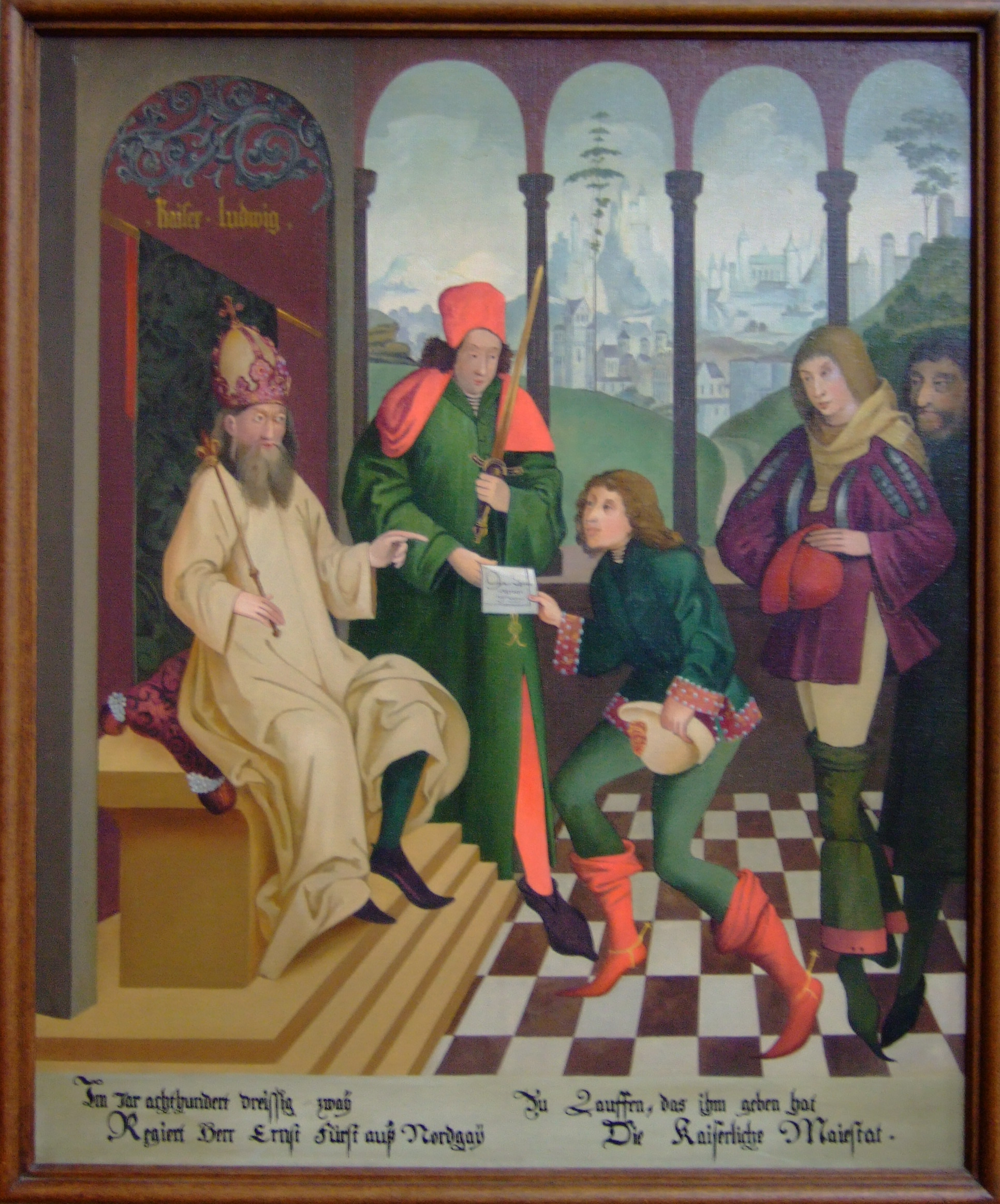 Church „Regiswindiskirche“ in Lauffen am Neckar/Germany, old painting in the choir